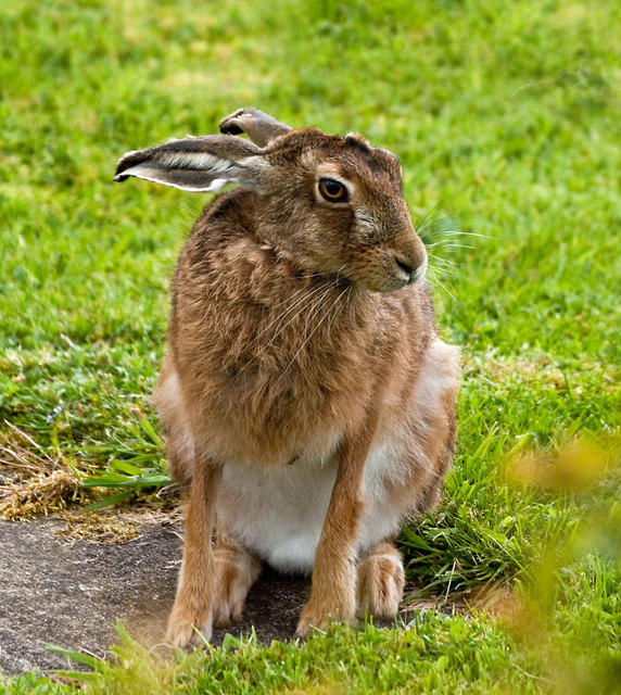 Brown Hare Lepus europaeus, the European brown hare, is reported to be in serious decline in Britain, probably due to changes in agriculture. (